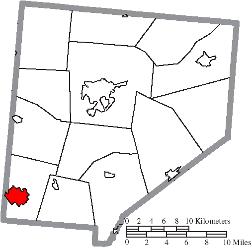 Map of the municipal and township boundaries of Clinton County, Ohio, United States, as of the 2000 census, with the location of the village of Blanchester highlighted. Township borders are shown only in unincorporated areas in order to differentiate incorporated and unincorporated areas more clearly.